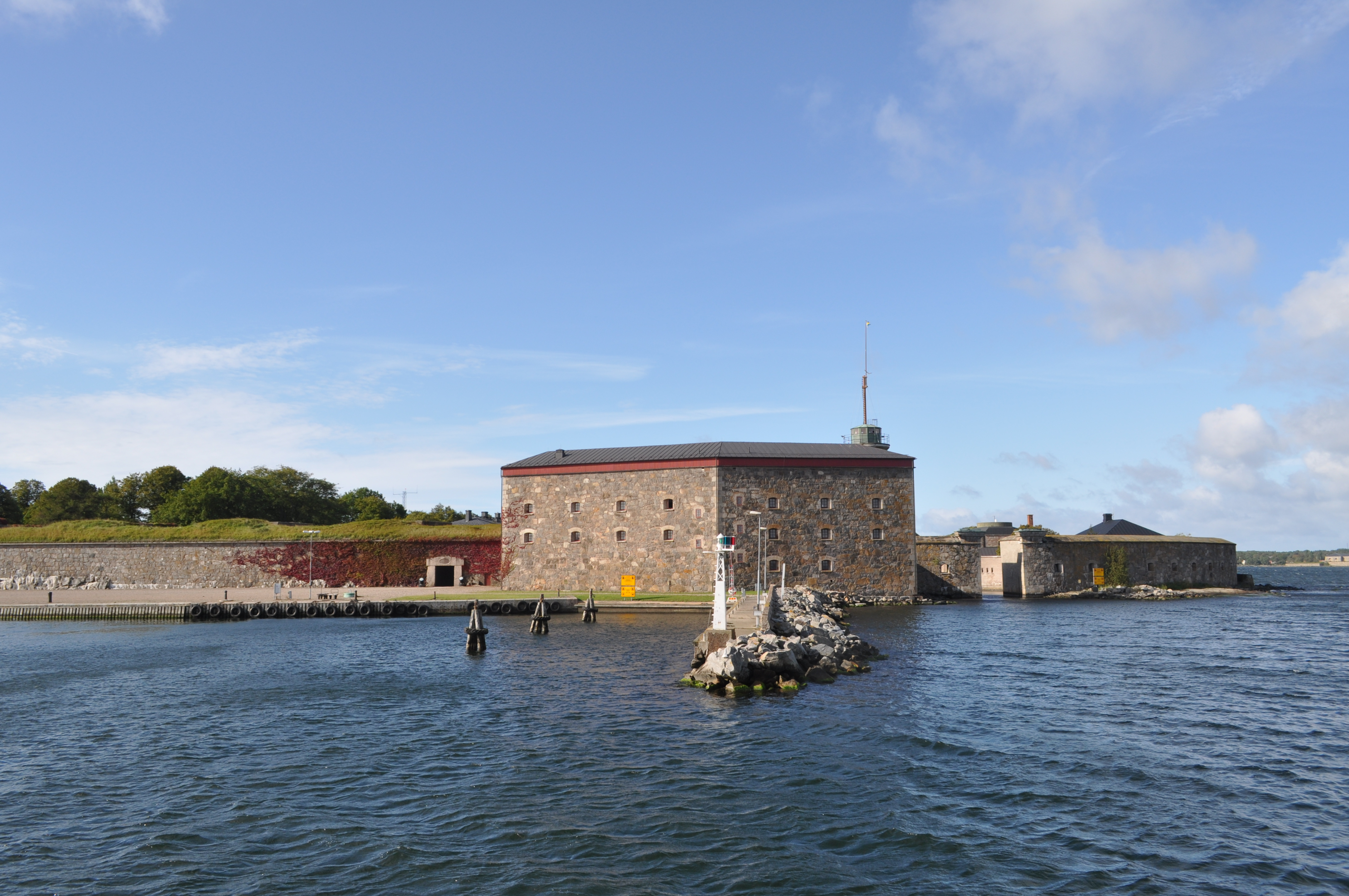 Kungsholms fort - donjon and harbur